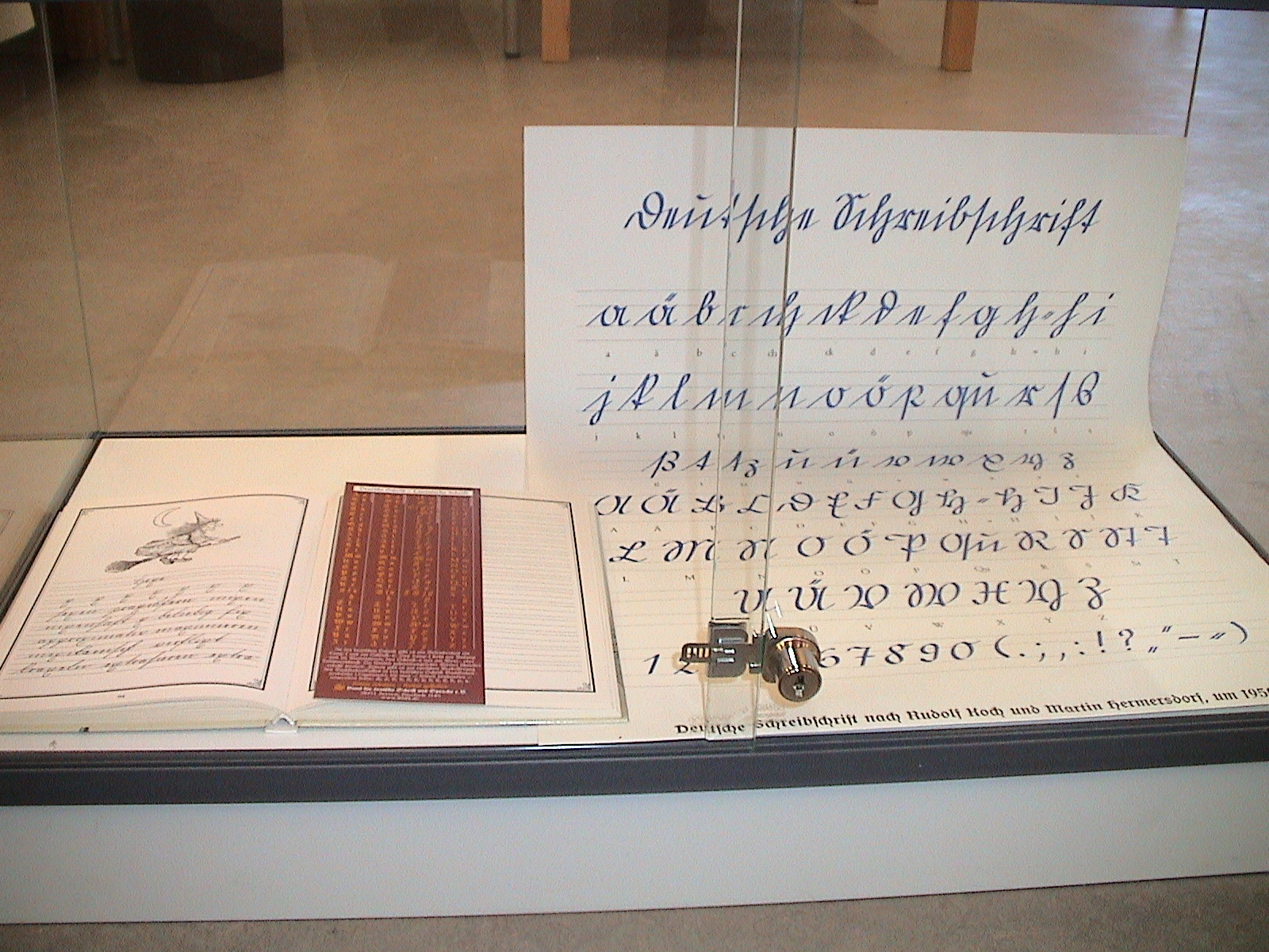 Detail of a display case with exhibits in the German scripts Kurrent and Offenbacher. The photo was taken in the town library of Straubing, Bavaria, Germany, on 12th November 2011. The town library is housed in Herzogsschloss, the ducal palace of Straubing.